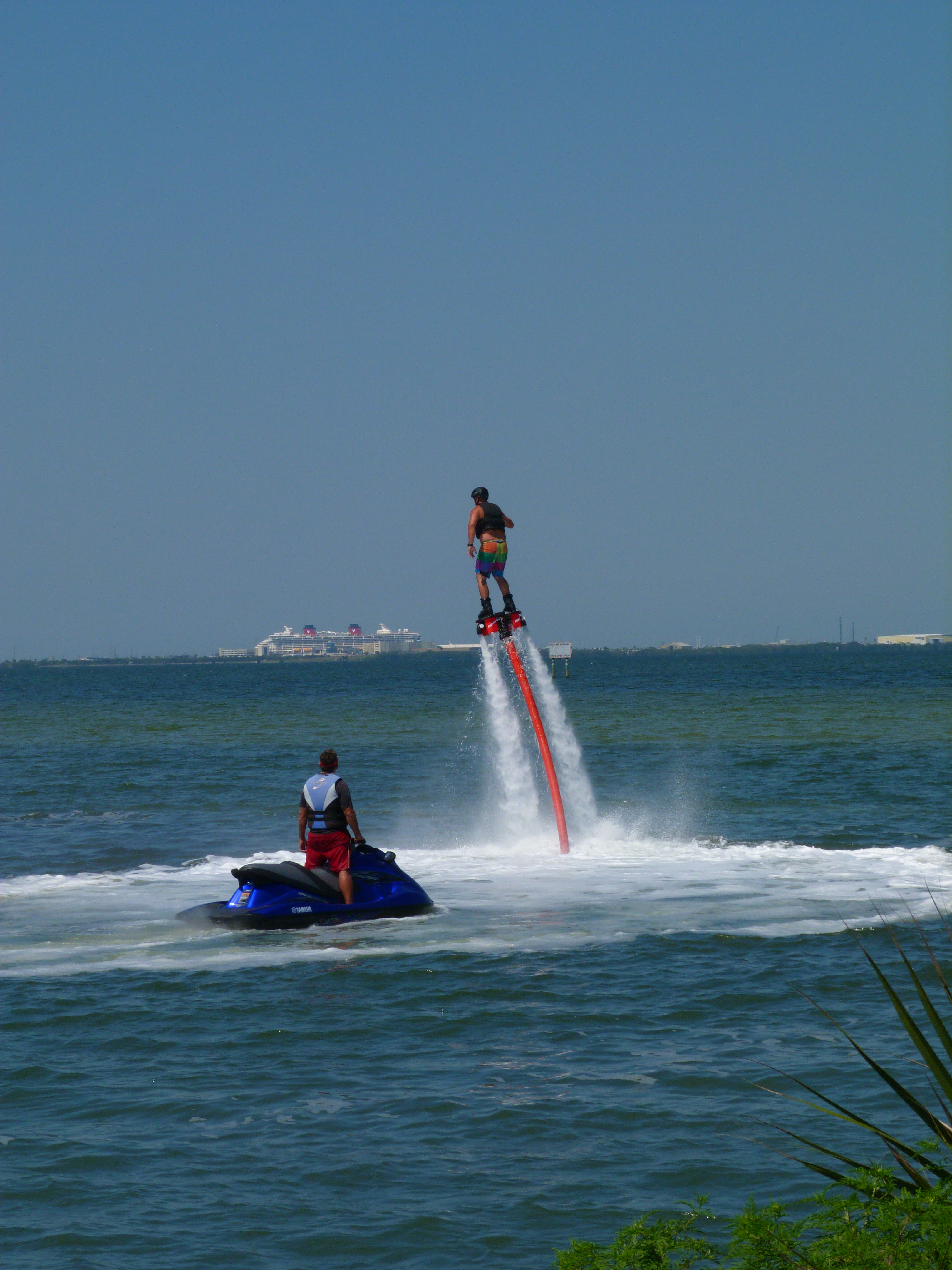 VAB in the background at Kennedy Space Center